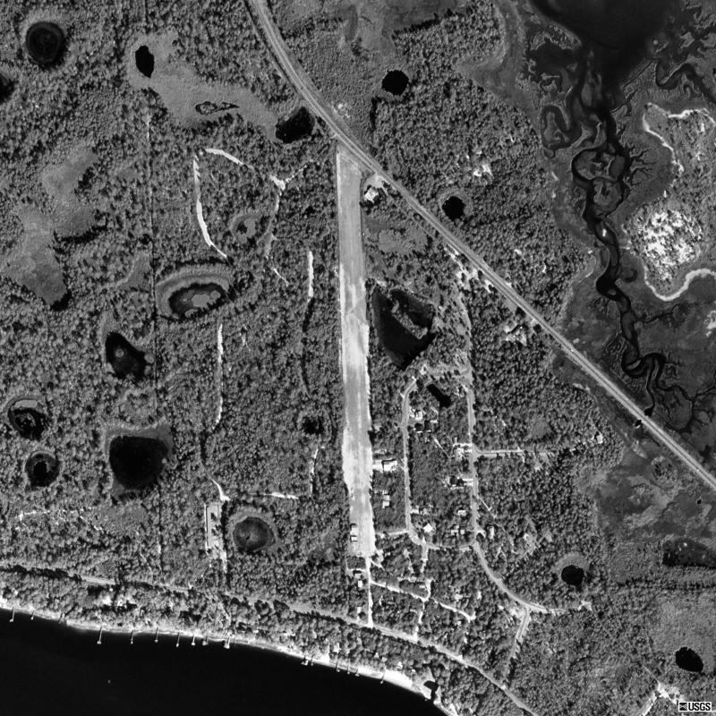 USGS digital orthophoto of Wakulla County Airport in Ochlockonee Bay, Florida, United States